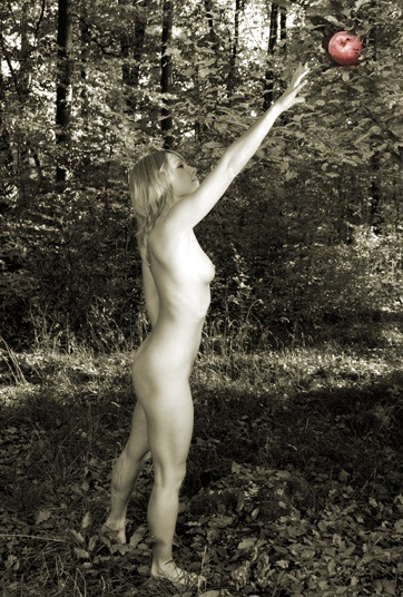 Eve as potraited by artist Fred Kuhne